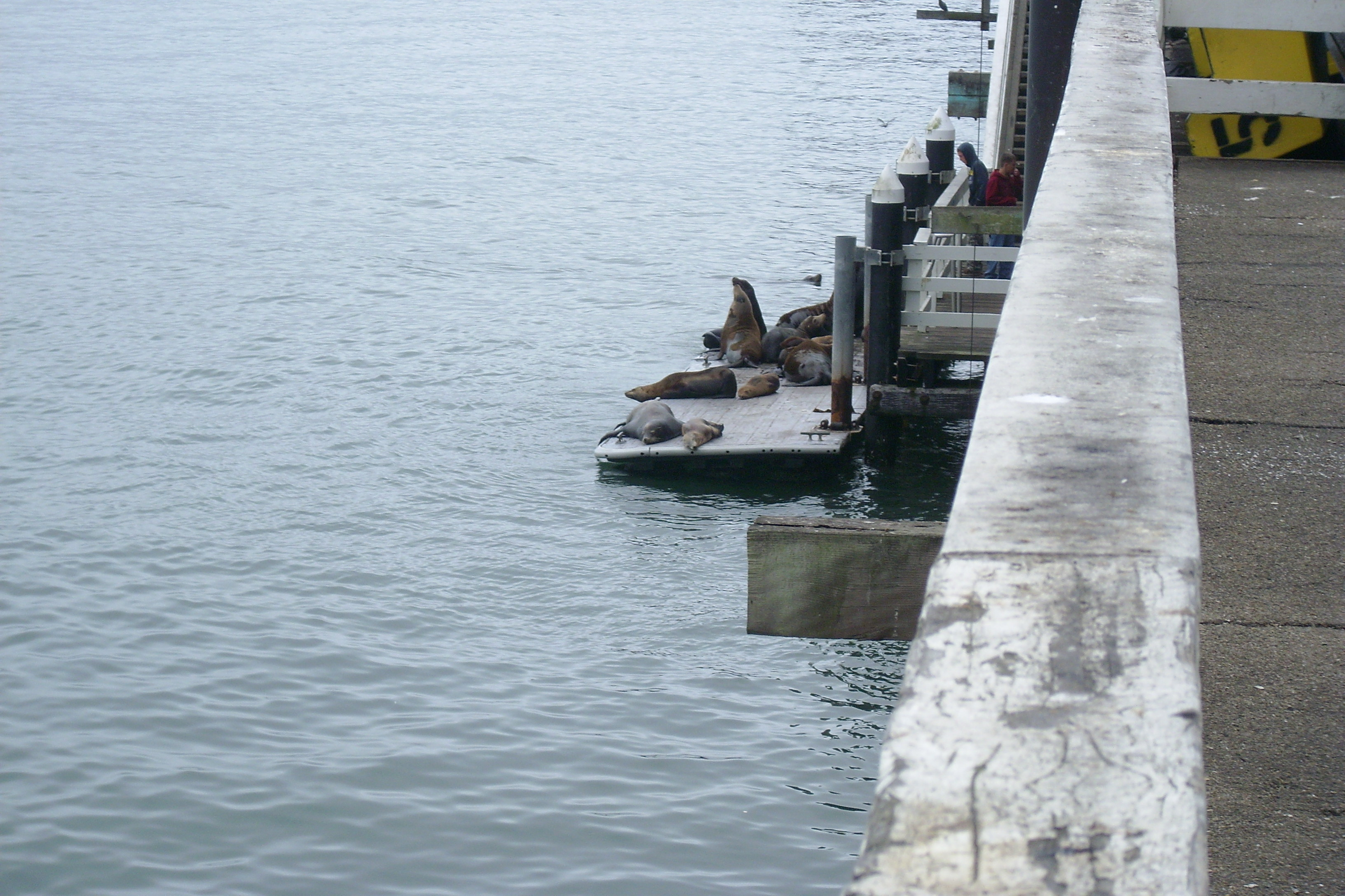 Sea lions on a floating platform next to S.C. Wharf